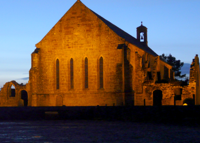 Fearn Abbey, floodlit at dusk